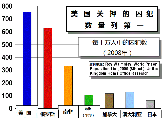 Selected incarceration rates worldwide. The stats source is the World Prison Population List, 8th edition. PDF file. By Roy Walmsley. Published in 2009. International Centre for Prison Studies. School of Law, King's College London. See also the latest data here: World Prison Brief - Highest to Lowest Figures. Compare many nations. Select from menu: prison population total, prison population rate, percentage of pre-trial detainees / remand prisoners within the prison population, percentage of female prisoners within the prison population, percentage of foreign prisoners within the prison population and occupancy rate. Simplified Chinese version.